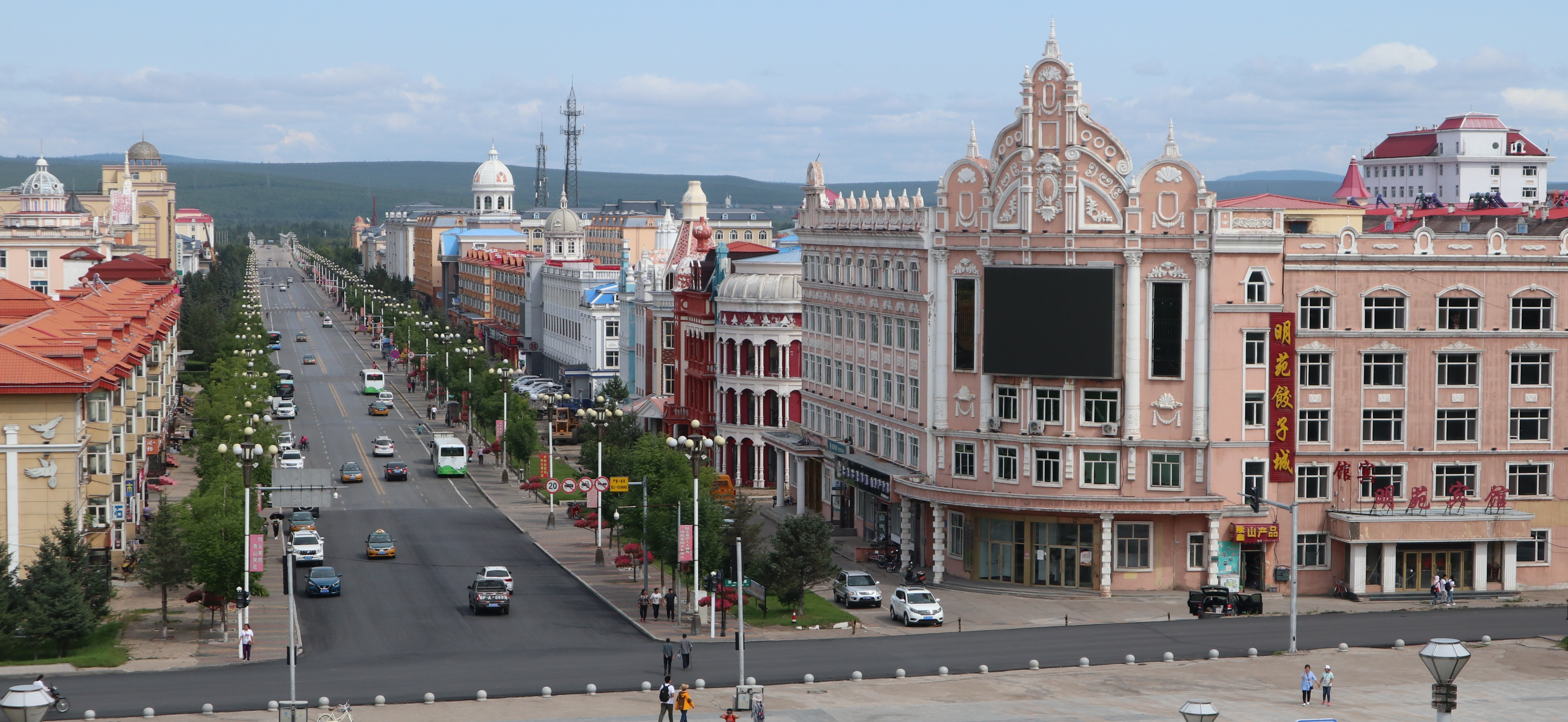 Overlook of Mohe from the Square of North Star.